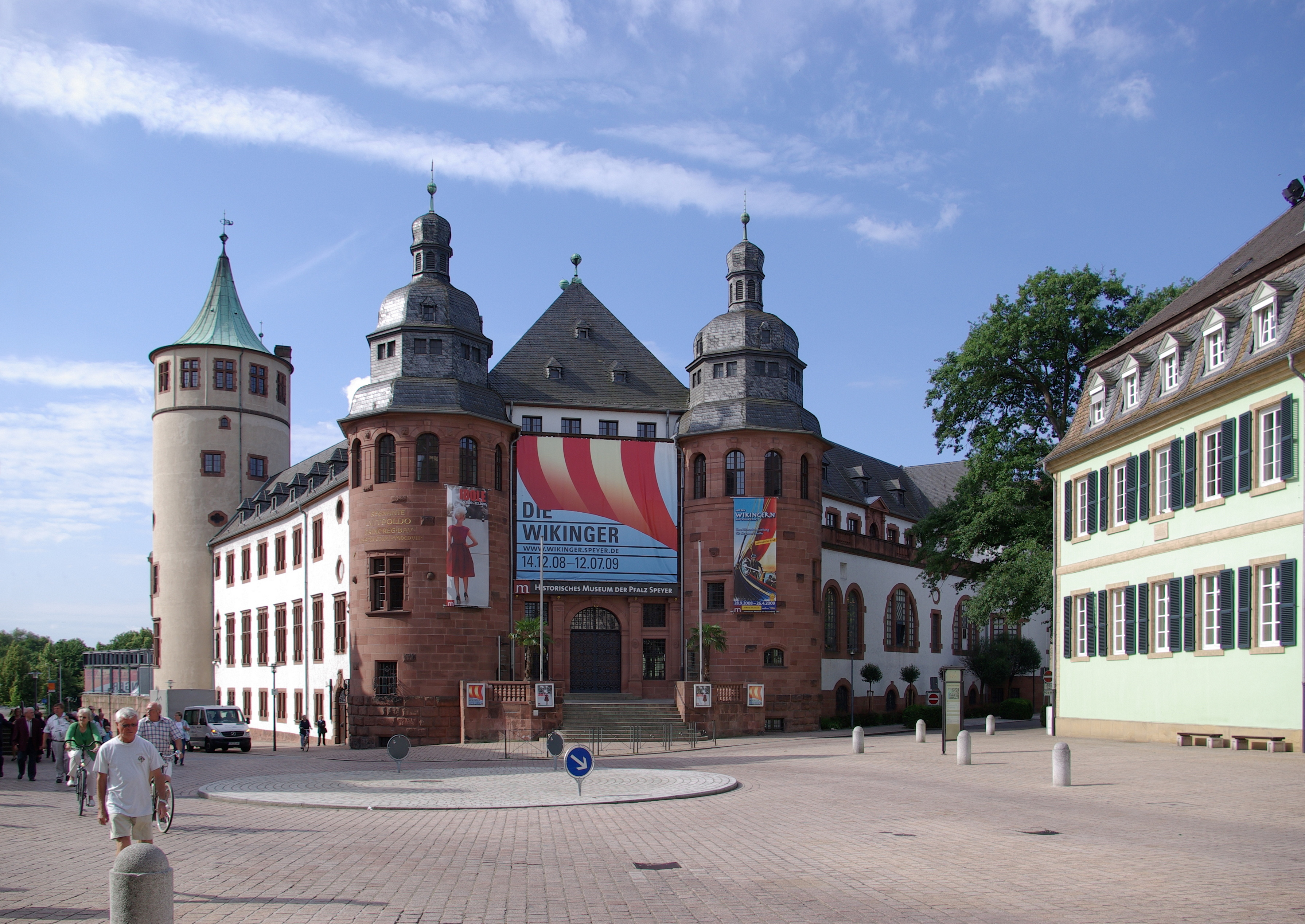 Germany, Speyer